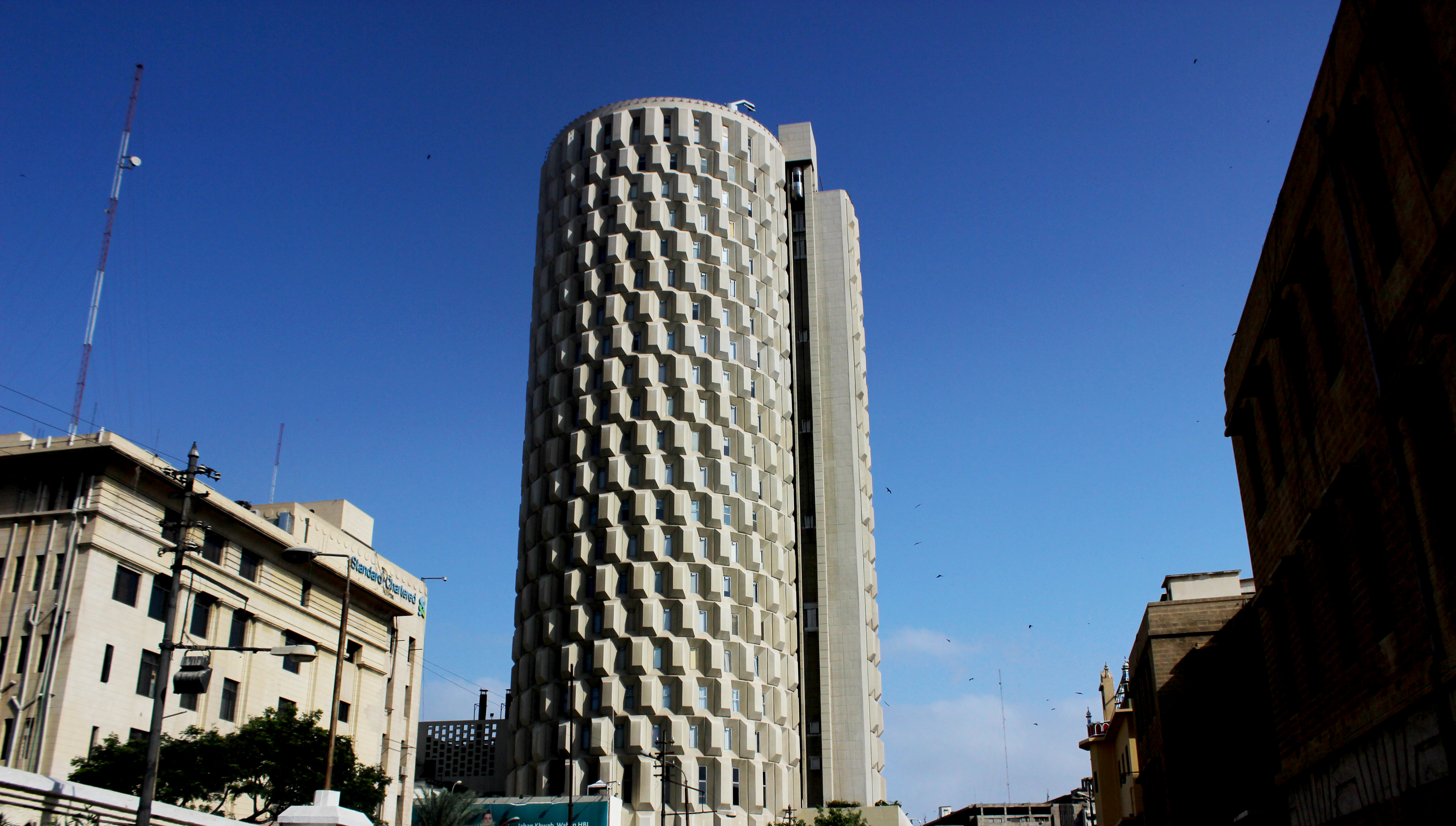 Habib Bank Plaza This is a photo of a monument in Pakistan identified as the SD-P-144